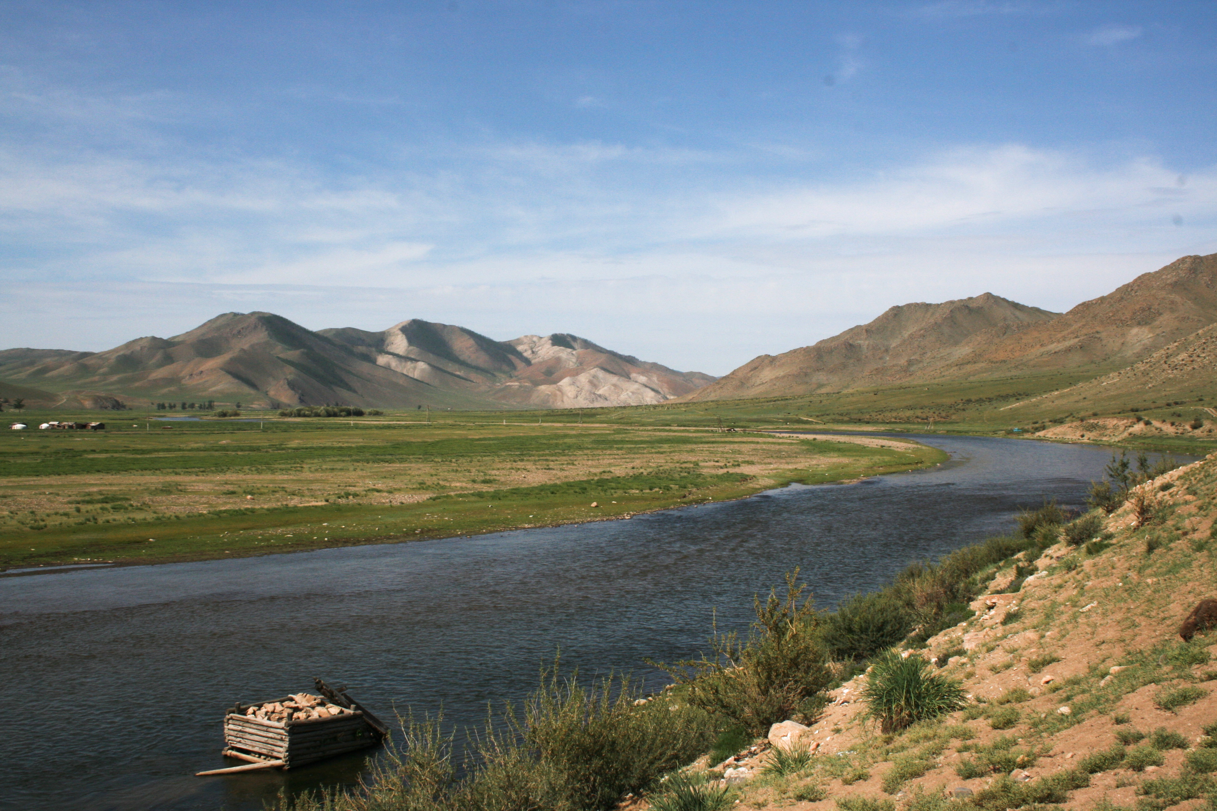 Ideriin gol, picture taken at the wooden bridge at Jargalant. Direction of view is roughly westward. In the foreground some remains from one (of at least two, IMHO) earlier wooden bridge.